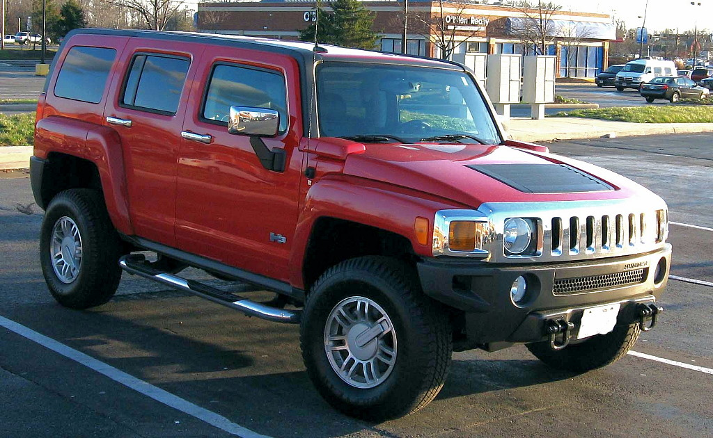 Hummer H3 photographed in USA.